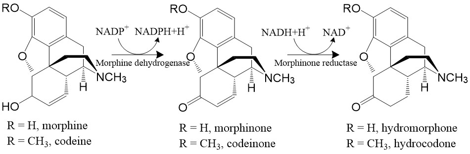 Initial steps of the morphine degradation pathway in Pseudomonas putida M10.